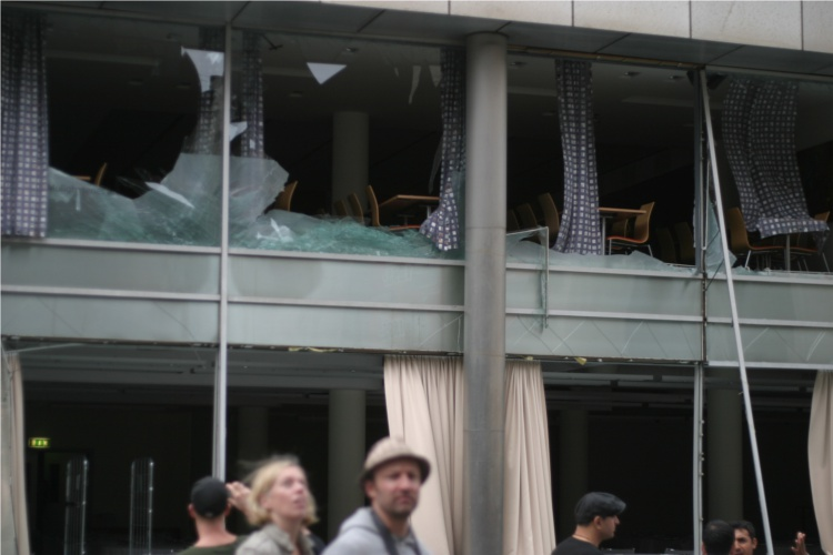 Damages to Oslo Kongressenter by Youngstorget done by the bomb attack in Oslo.